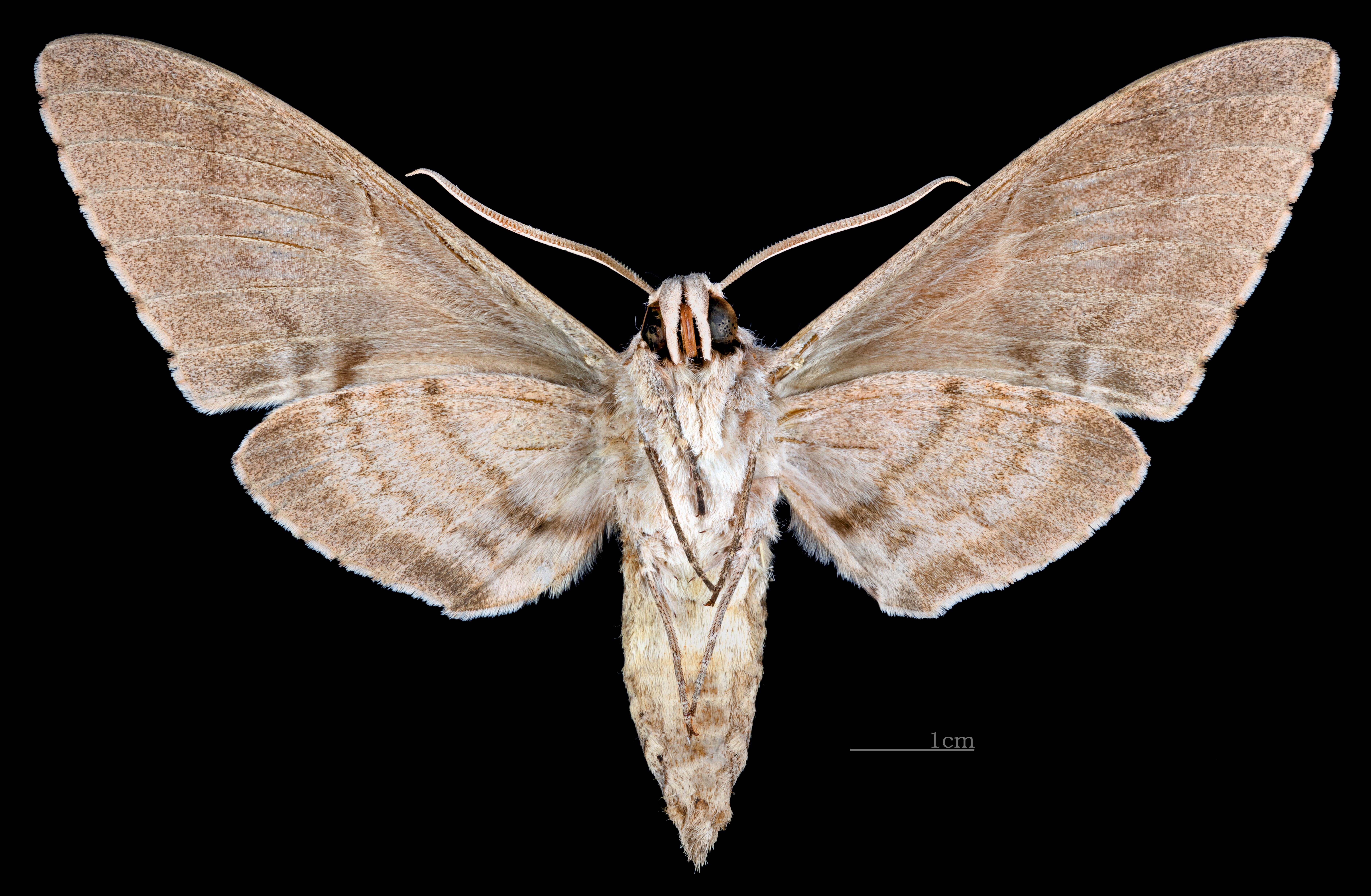 Manduca bergi - △ Ventral side Collection of the Mathematician Laurent Schwartz